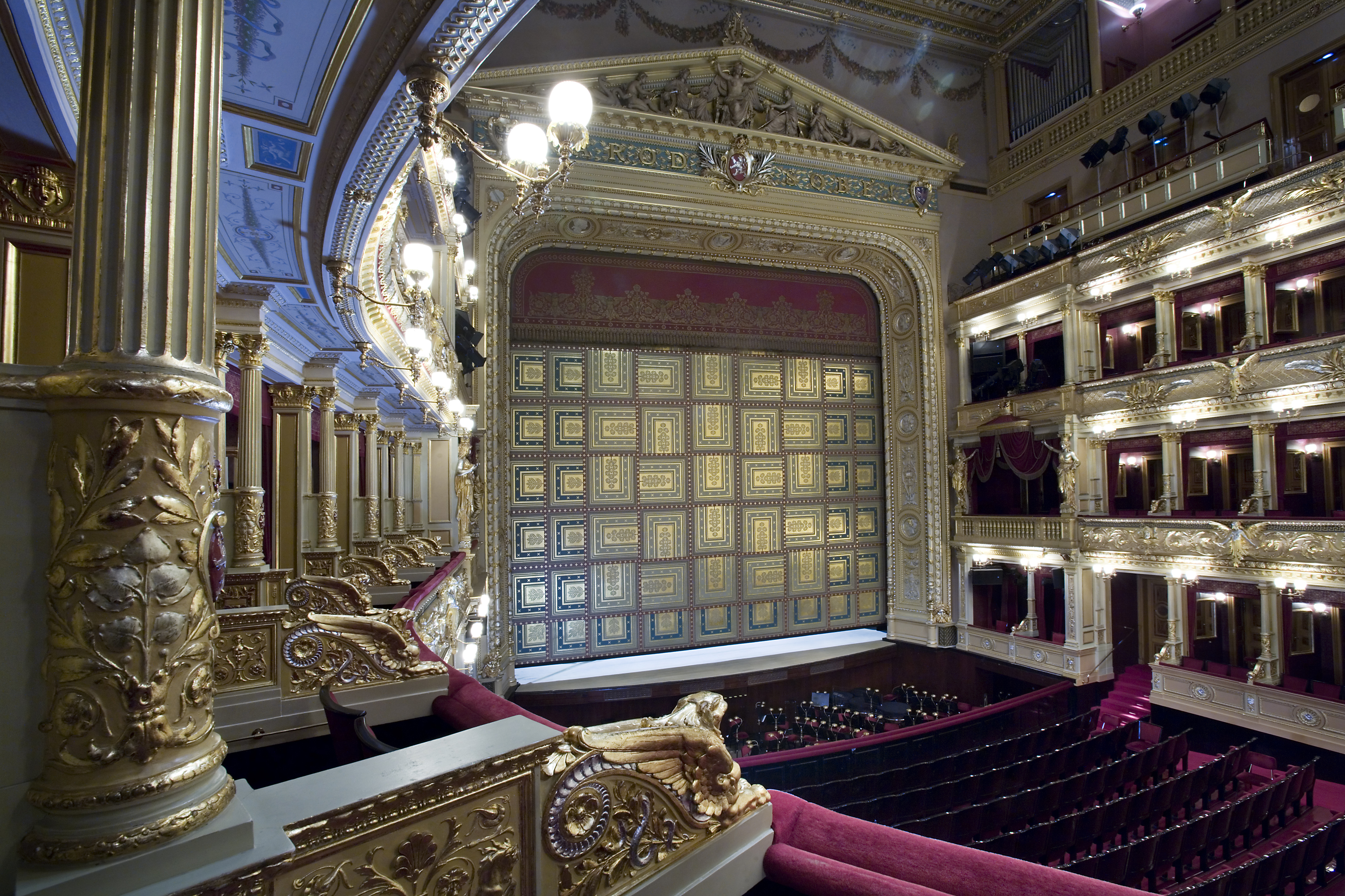 Narodni Divadlo, National Theater, Prague